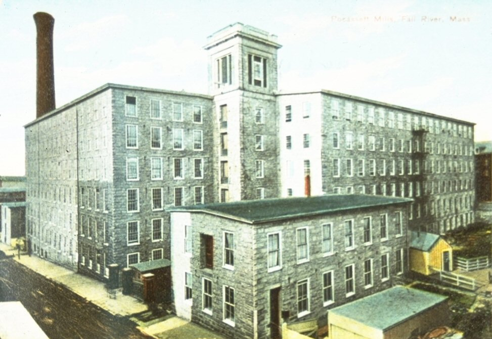 Antique postcard of Pocasset Mills, Fall River, Massachusetts